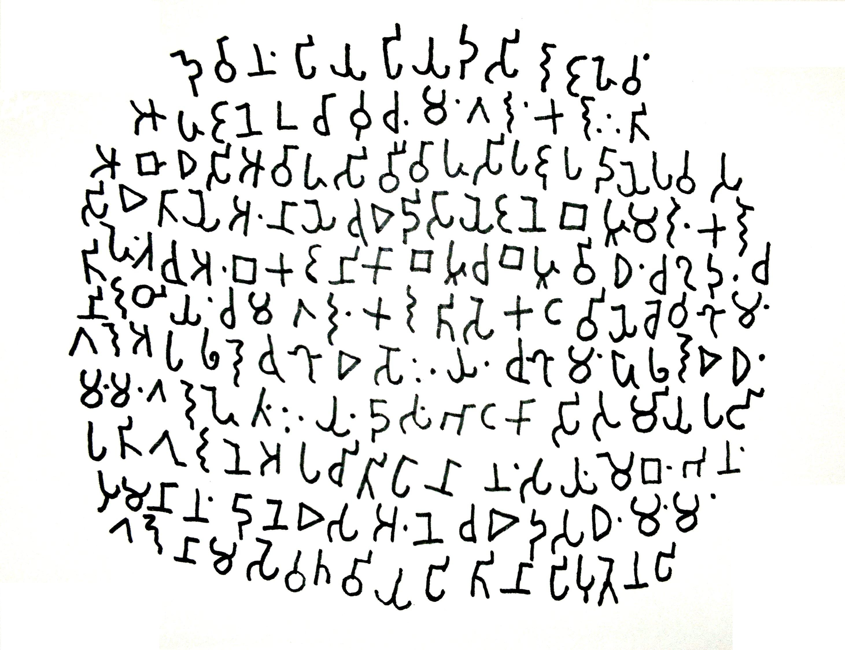 मुंबई जवळील सोपारा येथील अशोकाच्या शिलालेखाचे चित्रांकन